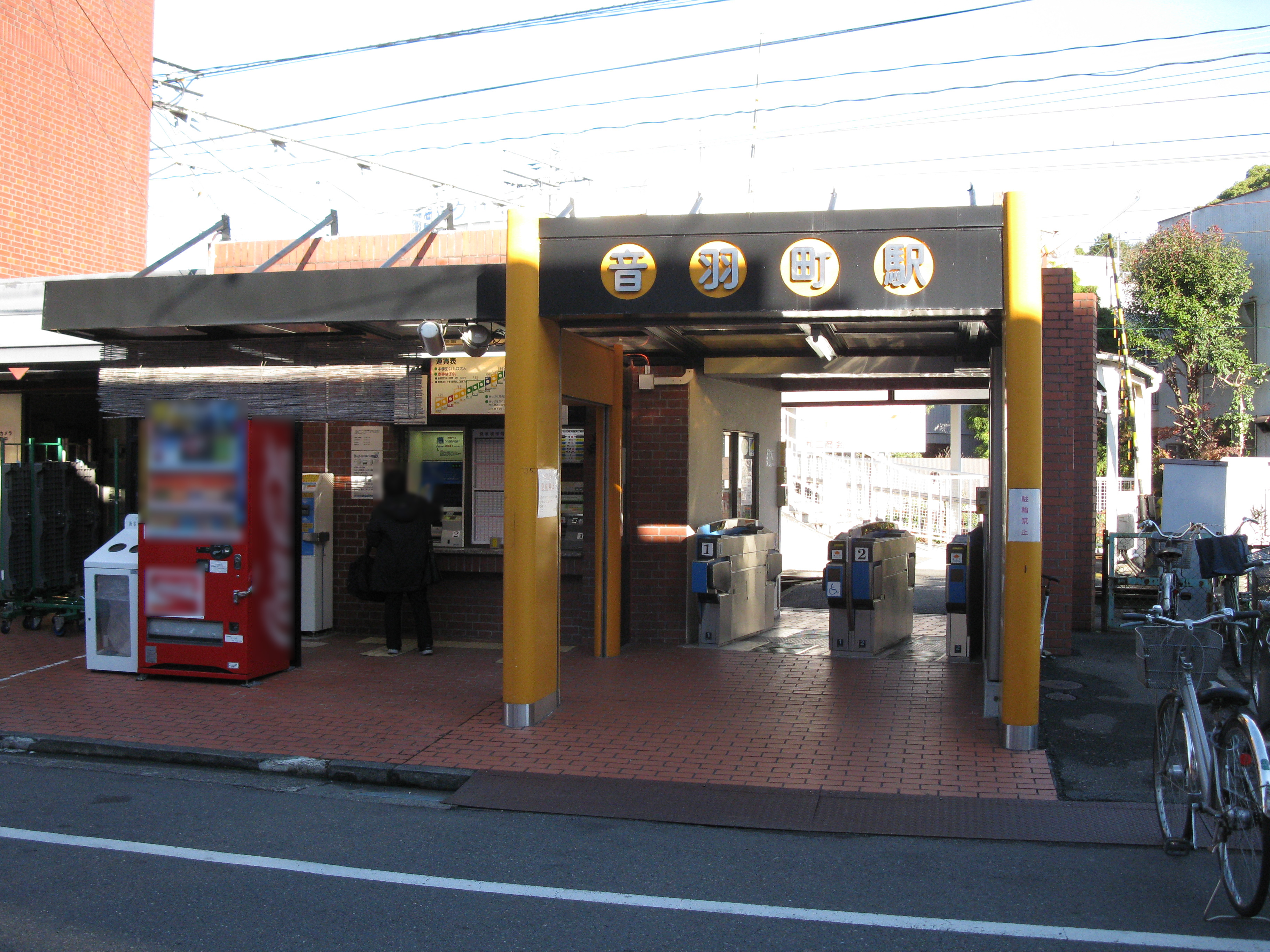 Otowachō Station entrance (Shizuoka Railway Shizuoka-Shimizu Line)